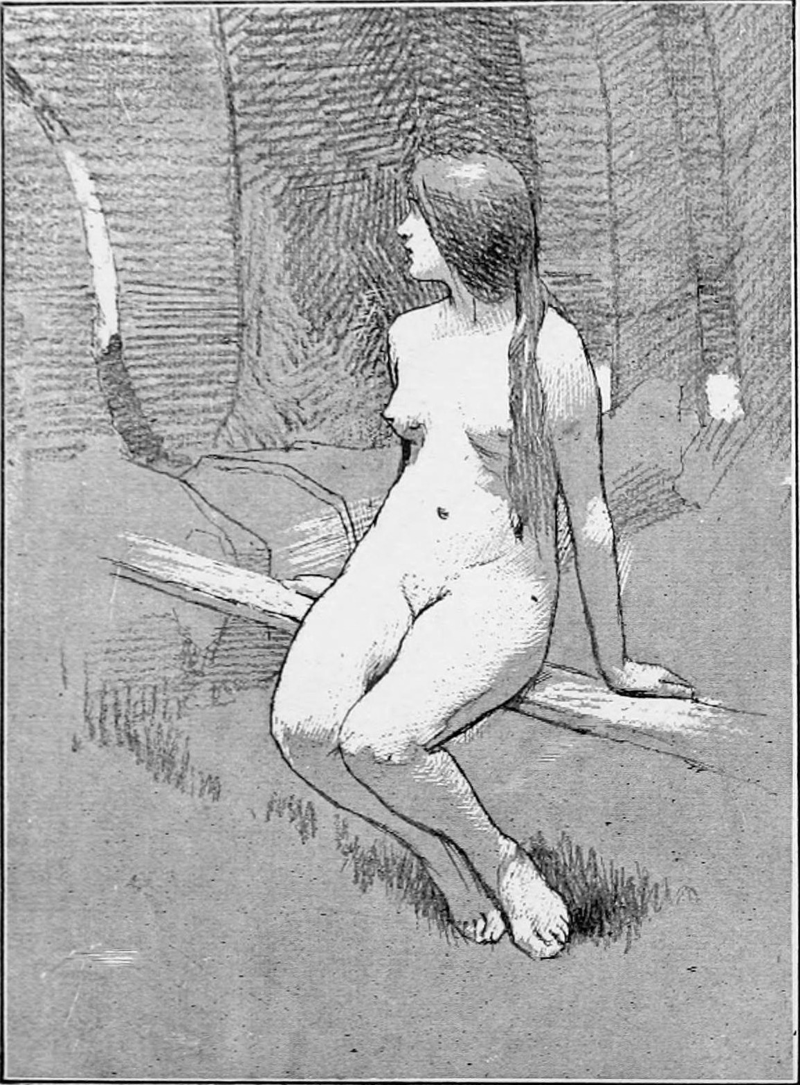 Evening